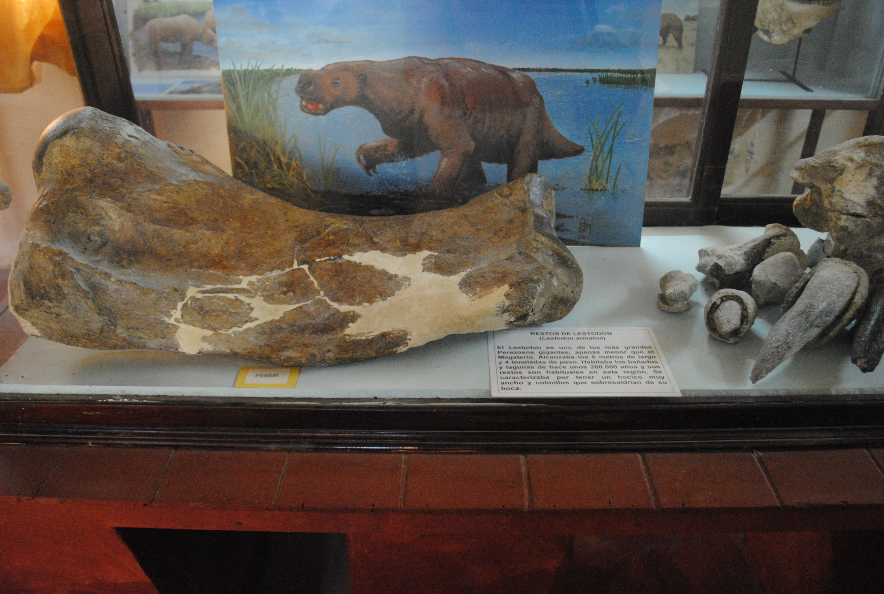 Lestodon femur at Municipal Museum Punta Hermengo, Florentino Ameghino Park, Miramar, Argentina.